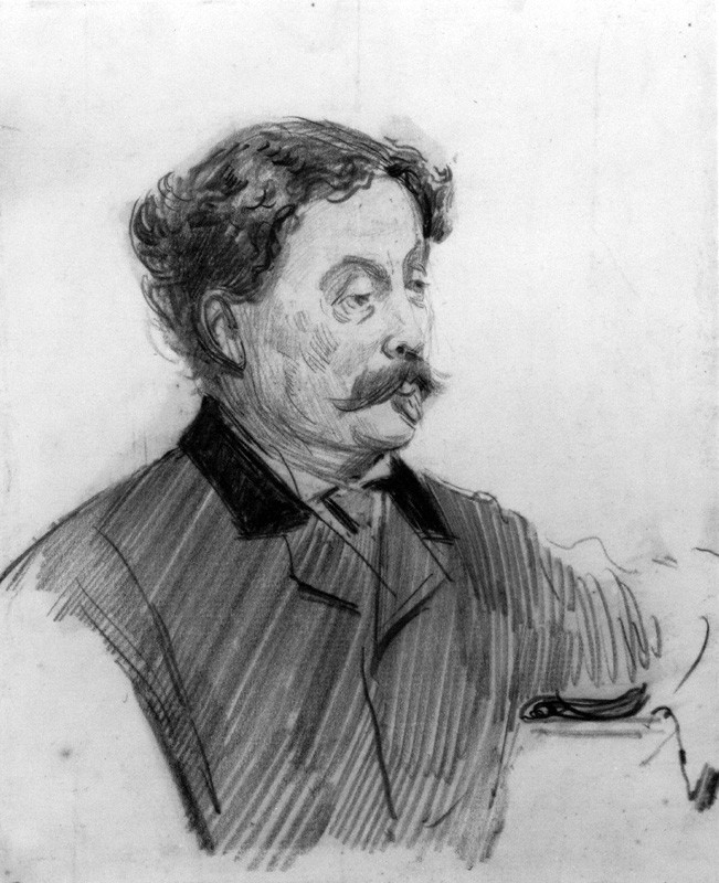 by Sydney Prior Hall, pencil, published in The Graphic 16 February 1889